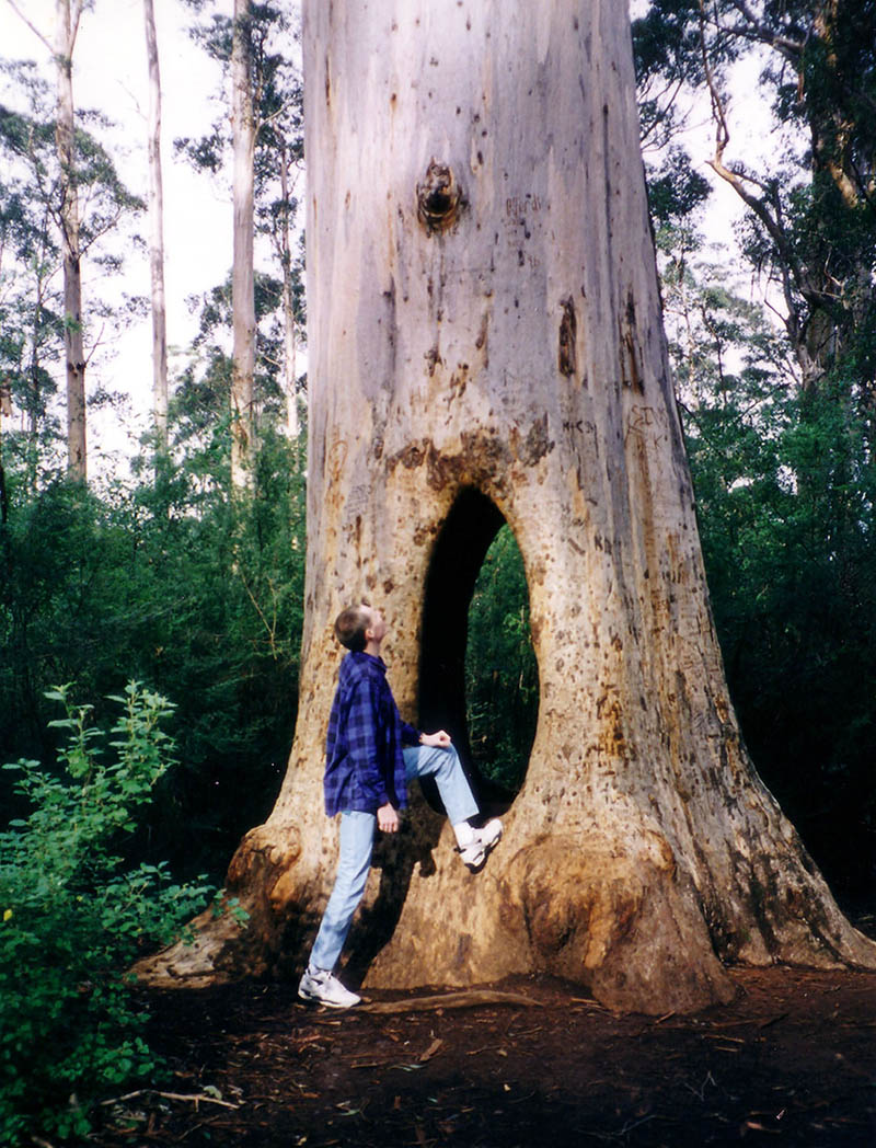 The "Walk Through Karri" is situated in the Beedelup National Park, Western Australia. A 3m x 4m hole was cut in the 75m tall 400 year old tree by chainsaw as a tourist attraction. Visitors can walk stand inside the tree with more than 150 tonnes of tree above. Photo: JAW, 1996